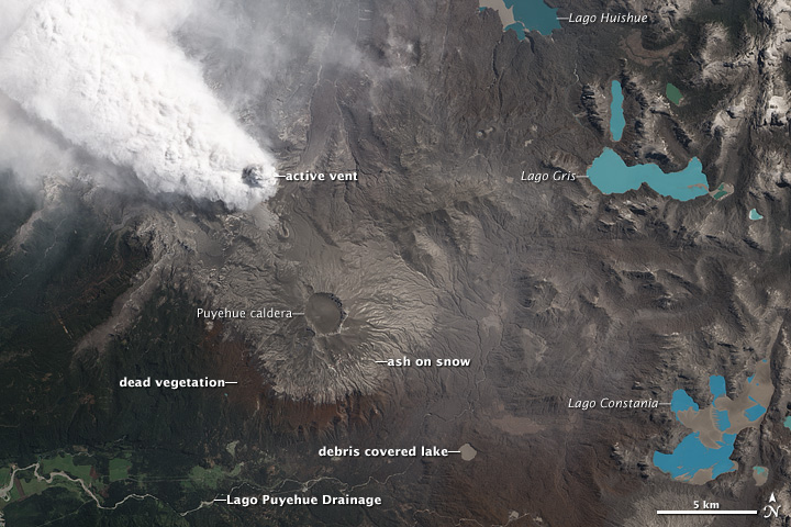 NASA image acquired October 22, 2011 To download the full resolution and other files go to: The eruption at Chile’s Puyehue-Cordón Caulle continues after starting in early June of this year. The current plume is much smaller than during the opening phases of the eruption, topping out at about 4.5 kilometers (2.8 miles). However, high atmospheric winds are carrying the ash away and disrupting air travel throughout the region. Depending on the wind, ash from Puyehue-Cordón Caulle is being carried 120–250 kilometers (75–160 miles) from the vent. Once the ash and tephra (solid material ejected by a volcano) are erupted, it isn’t the end to the hazard they pose. These images show the accumulation of ash and tephra on the waterways around Puyehue-Cordón Caulle, especially Lago Huishue, Gris, and Constania on the eastern (right) side of the image. Some smaller lakes are completely covered in volcanic debris. Rainfall and snowmelt can easily move the ash deposits into nearby drainages, and produce small mudflows (called lahars when they are made up of volcanic material) that carry debris even further away. The stream valley in the lower left hand side is grey with ash and volcanic debris. These accumulations of volcanic debris will likely be remobilized for years to decades after the eruption ends. NASA images by Jesse Allen and Robert Simmon, using ALI data from the EO-1 Team. Caption by Erik Klemetti, Denison University and Wired Eruptions Blog, and Robert Simmon, NASA GSFC. The Earth Observatory's mission is to share with the public the images, stories, and discoveries about climate and the environment that emerge from NASA research, including its satellite missions, in-the-field research, and climate models. Like us on Facebook Follow us on Twitter